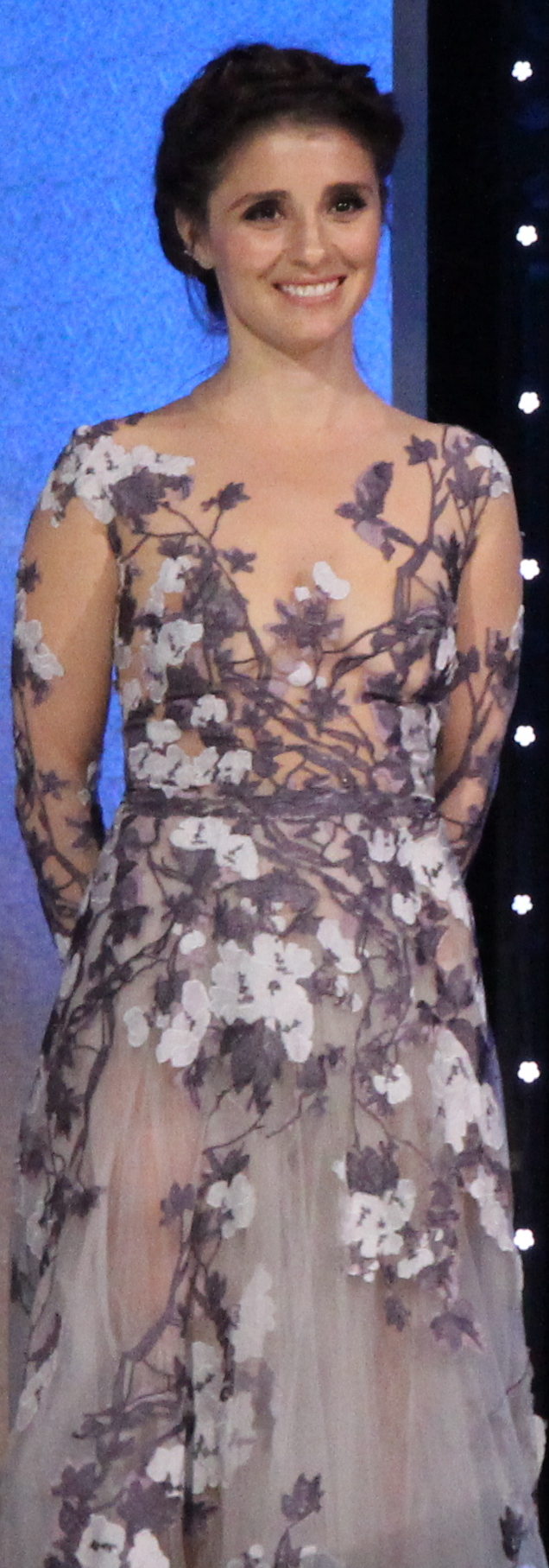 This photo includes Co-Creator/ Executive Producer Mari Noxon, Actor Shiri Appleby and Co-Creator Sarah Gertrude Shapiro from Lifetime's "UnREAL." (Photo/Sarah E. Freeman/Grady College, in New York City, Georgia, on Saturday, May 21, 2016)